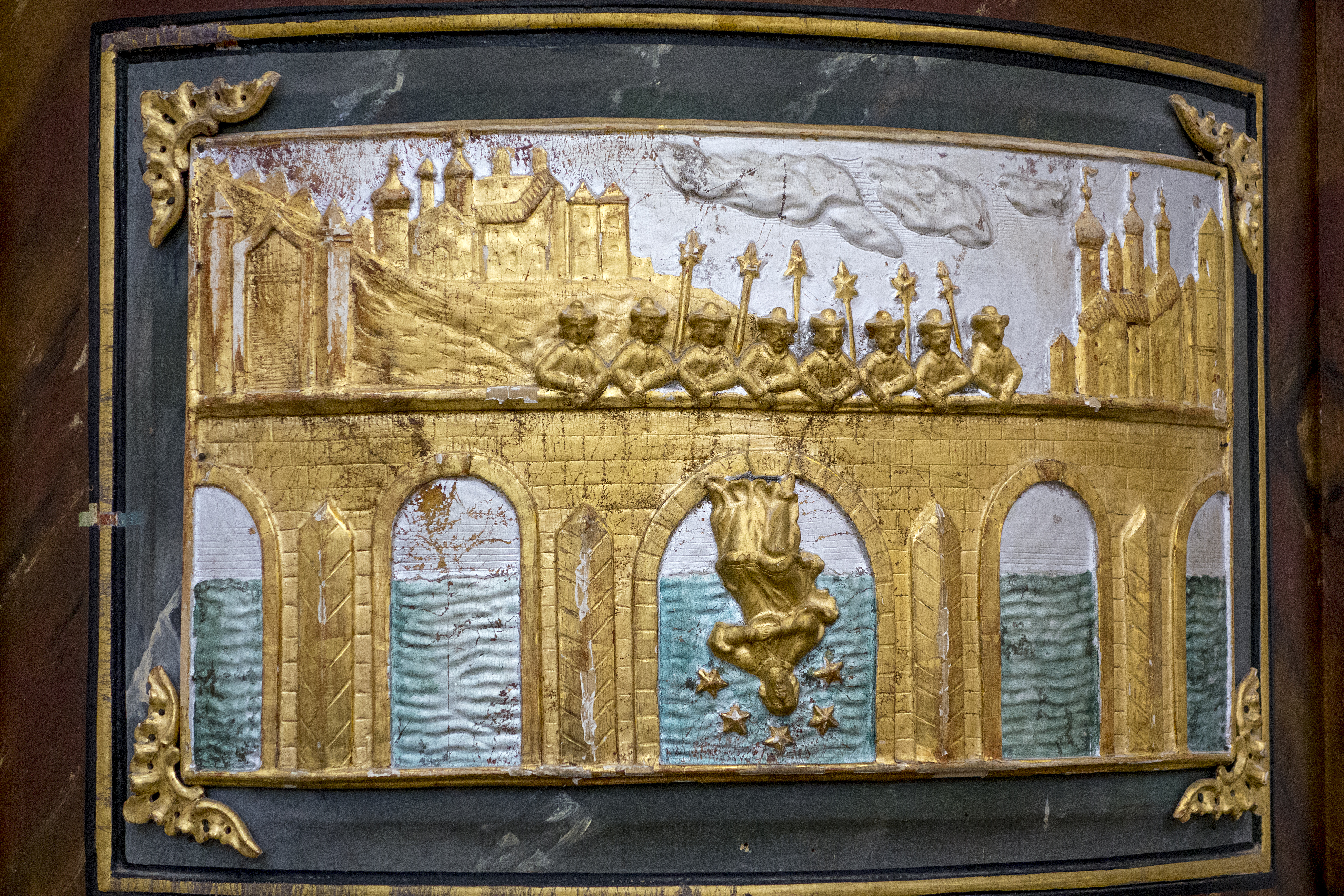 The pilgrimage church of St. John of Nepomuk at Zelena hora}. The bas-relief: The death of St. John of Nepomuk.